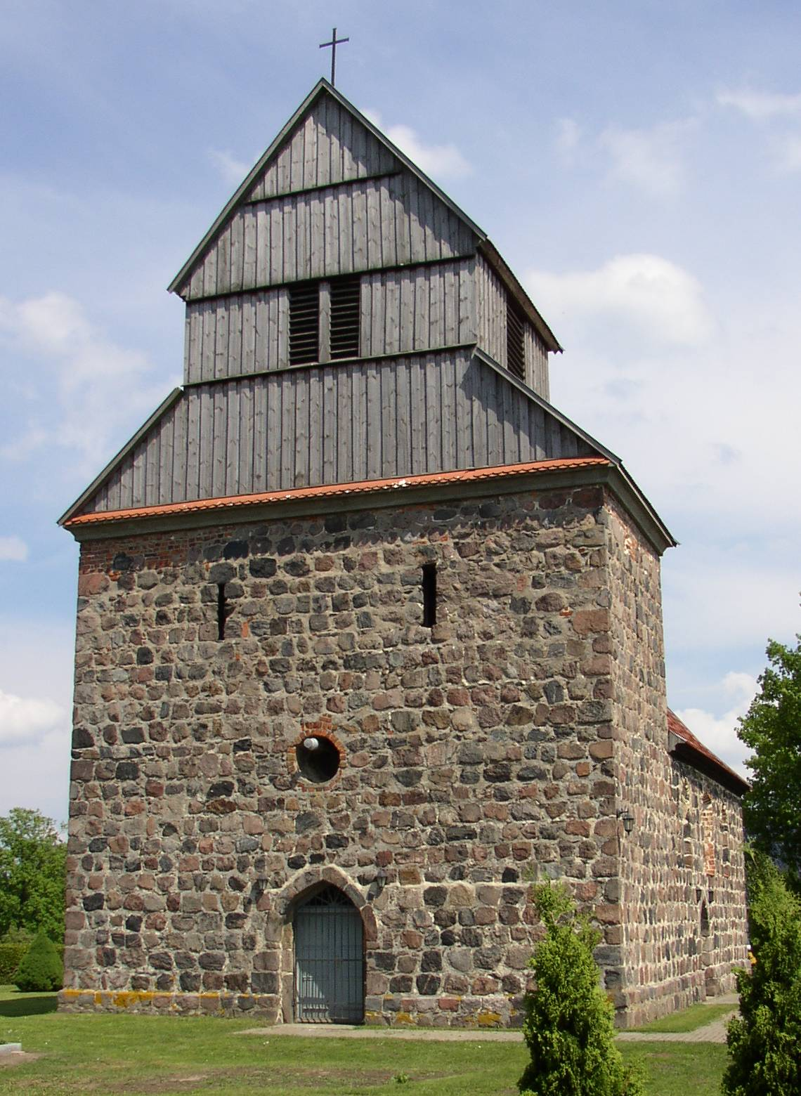 Church in Neuruppin-Stöffin in Brandenburg, Germany